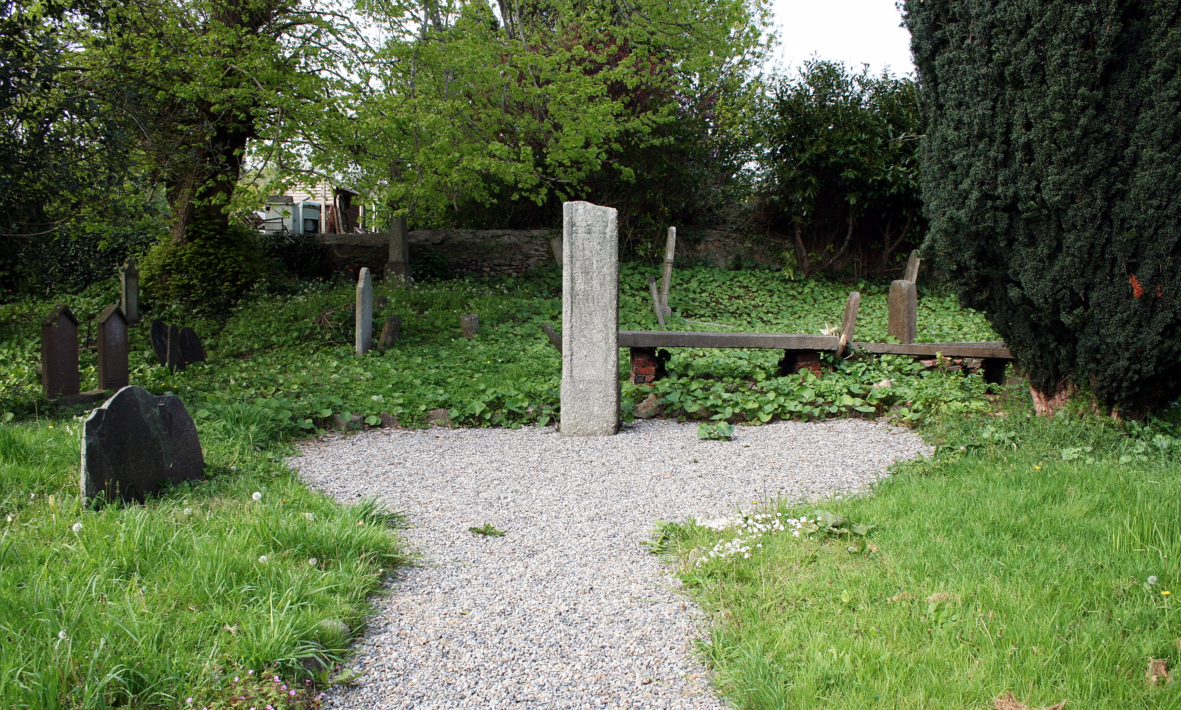 Monumental Cross in old graveyard in Delgany, County Wicklow, Ireland